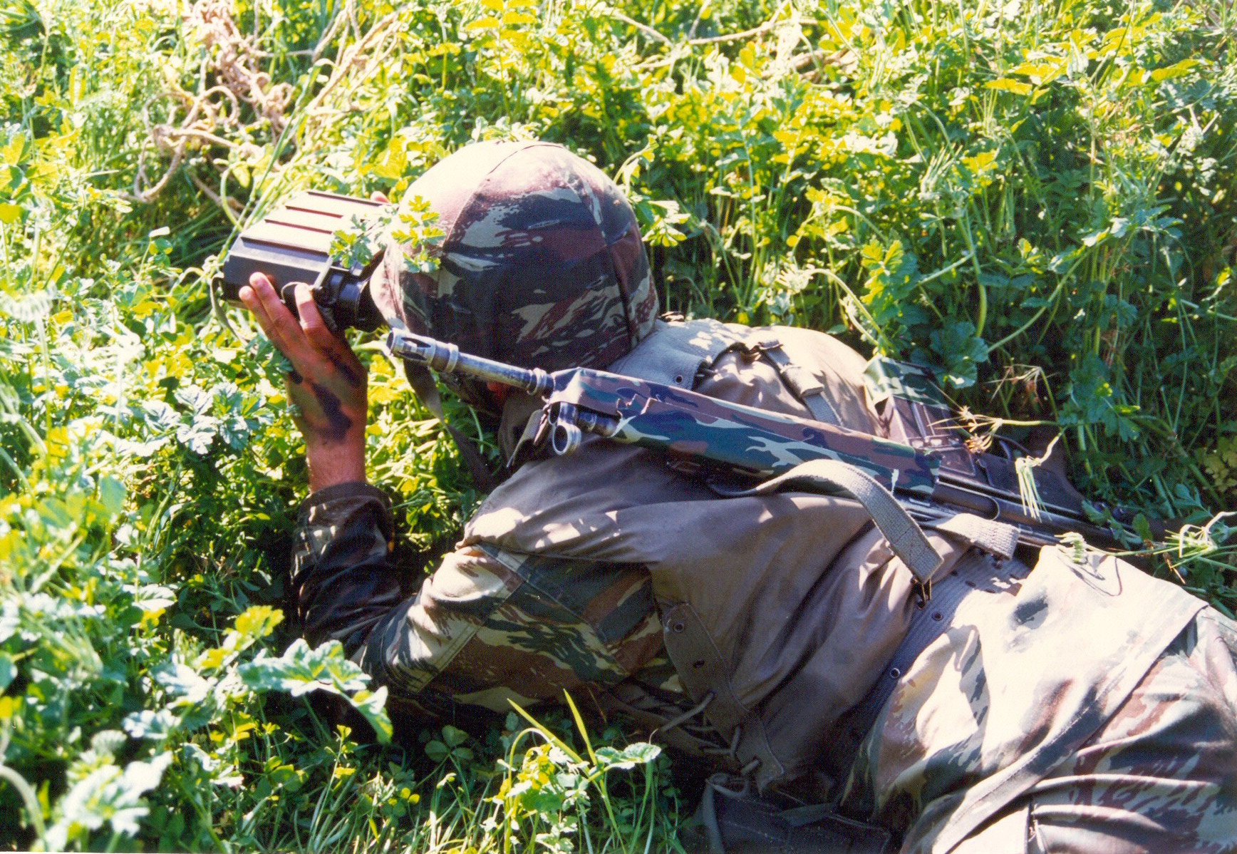 Laser rangefinder